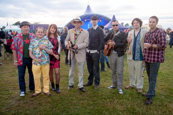 The Swanvesta Social Club at The Acoustic Festival of Britain in 2015